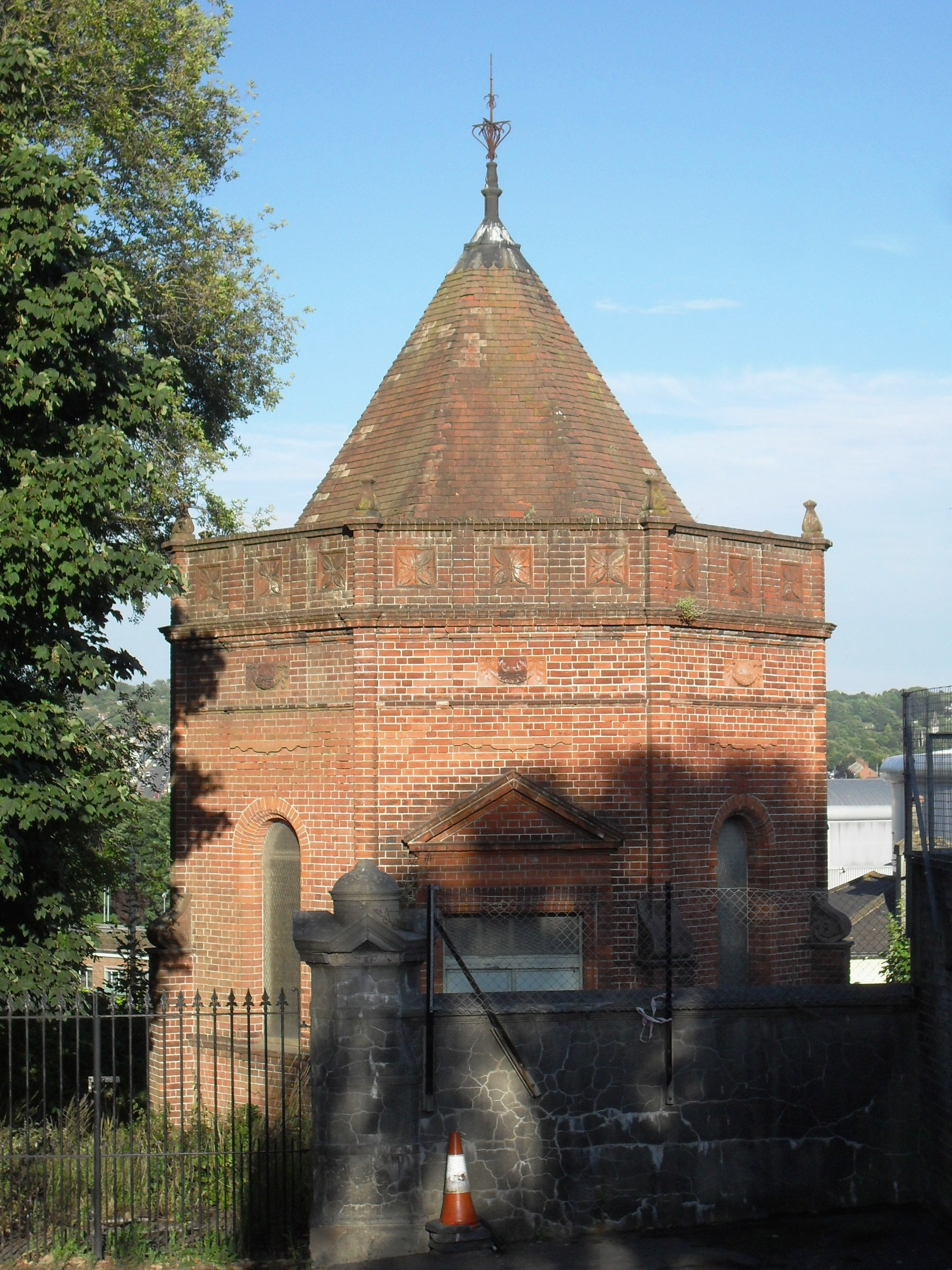 Gates, Chapel at the Jewish Cemetery, Florence Place, Brighton, City of Brighton and Hove, England. An octagonal brick and terracotta chapel built in 1893 by Thomas Lainson to serve the small cemetery, established by Brighton's Jewish community in 1826. Listed at Grade II by English Heritage (IoE Code 480736)